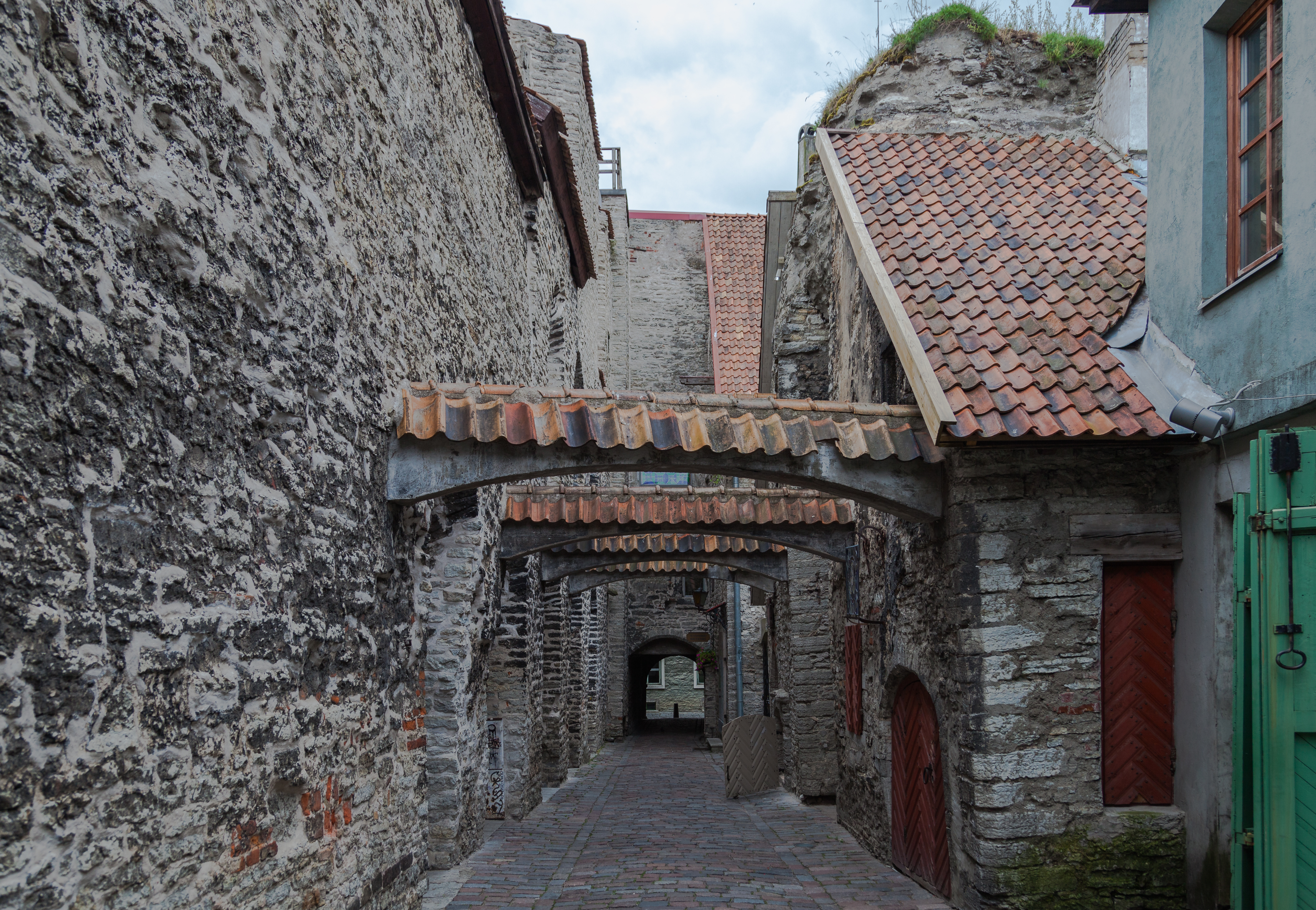 St. Catherine's Passage, Tallinn, Estonia